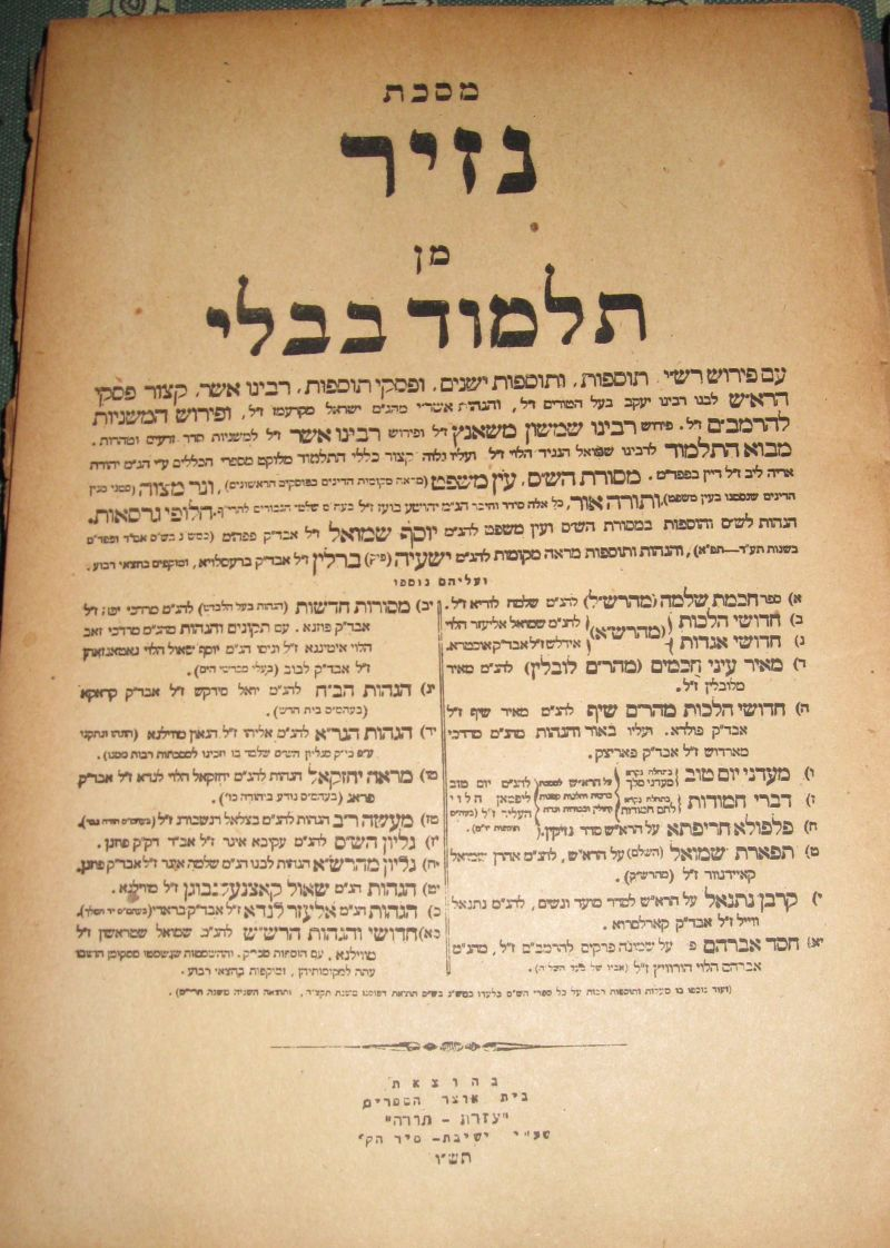 Talmud - Nazir tractate, printed in Shanghai, 1946